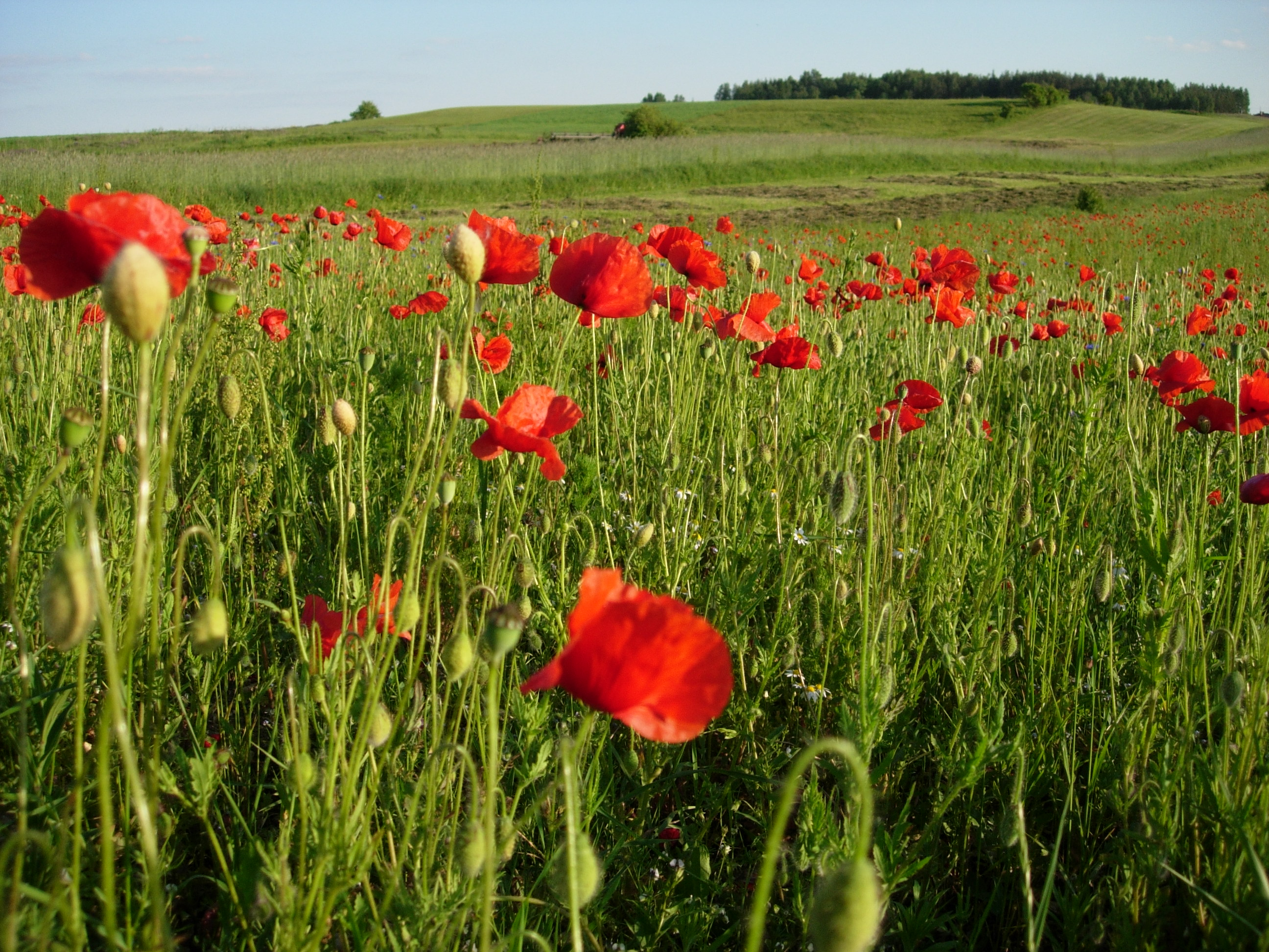 Poppies (Papaver rhoeas) in a Polish field.